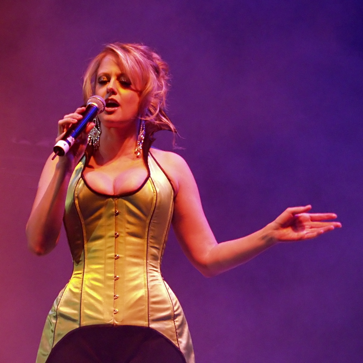 Barbara Schöneberger performs on the charity concert “Cover me” at Palladium, Cologne, Germany.